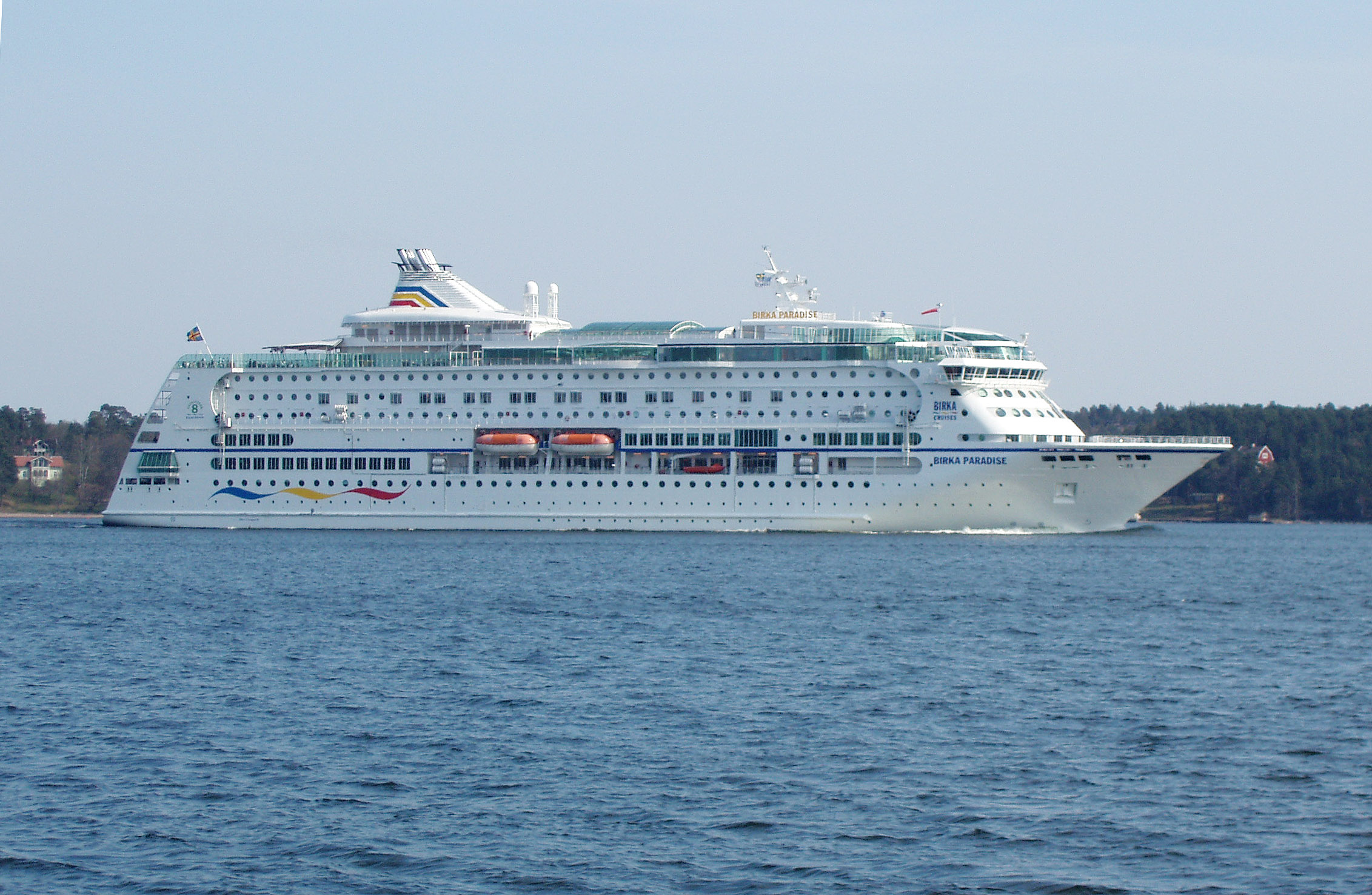 Cruise ship M/S Birka Paradise outside Gåshaga, Lidingö on its way to Stockholm harbour.